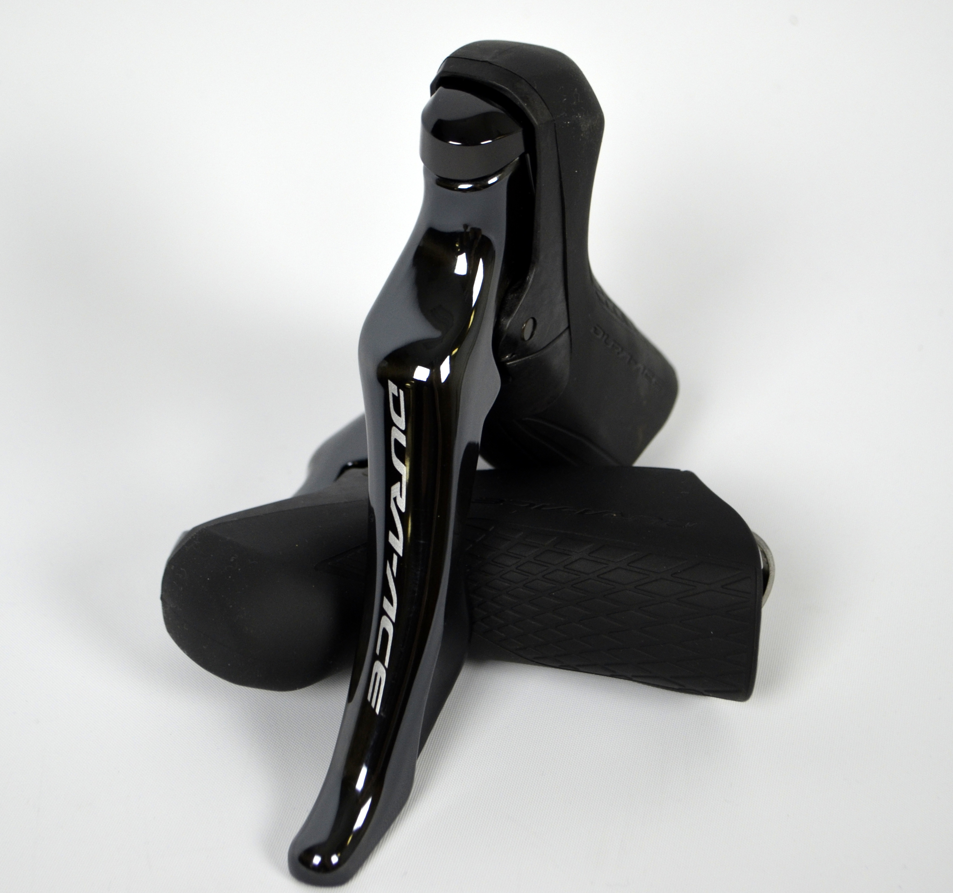 Dura-Ace 9100 Mechanical Groupset